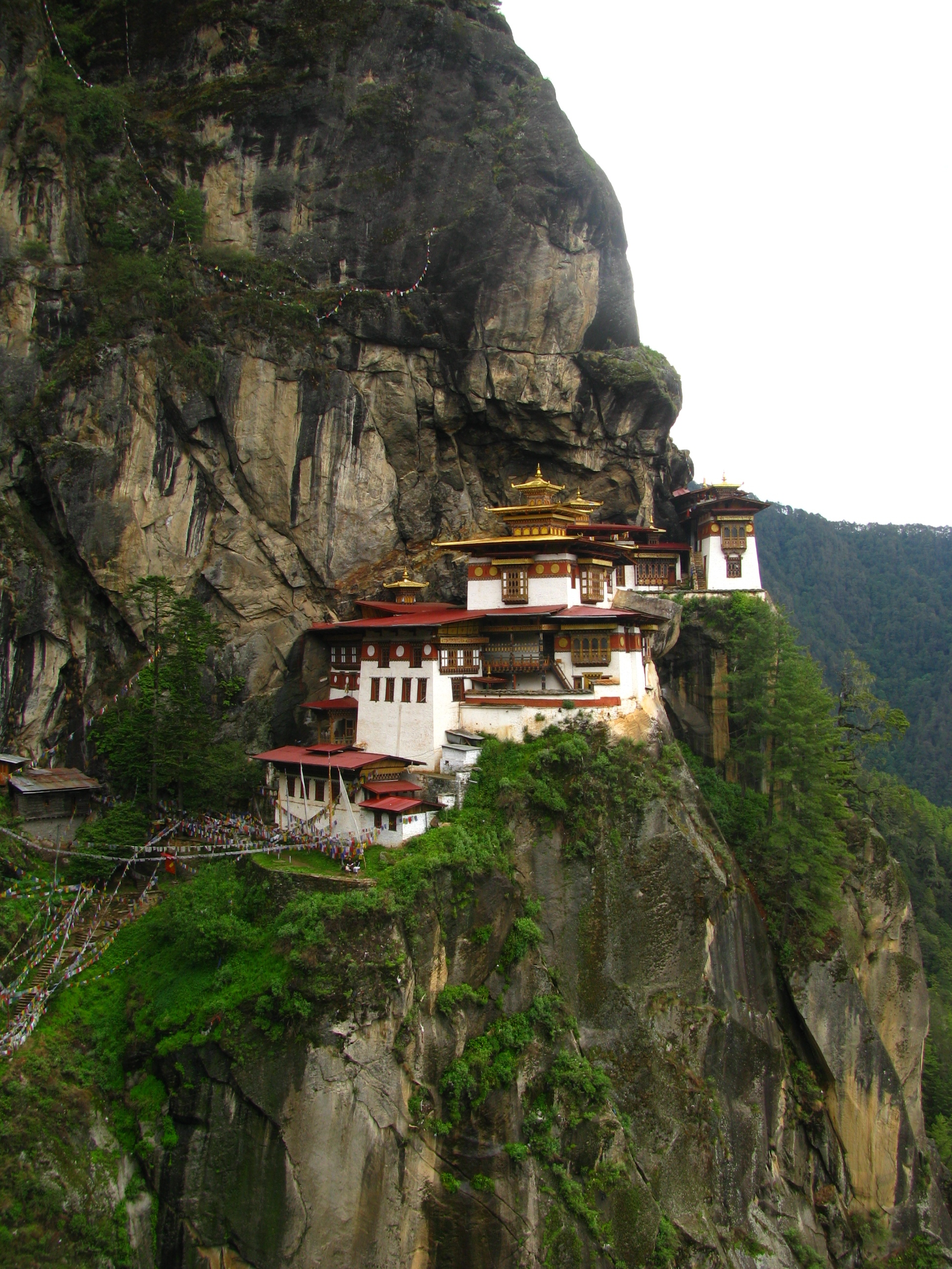 Taktshang monastery, Bhutan. The Tiger's nest.